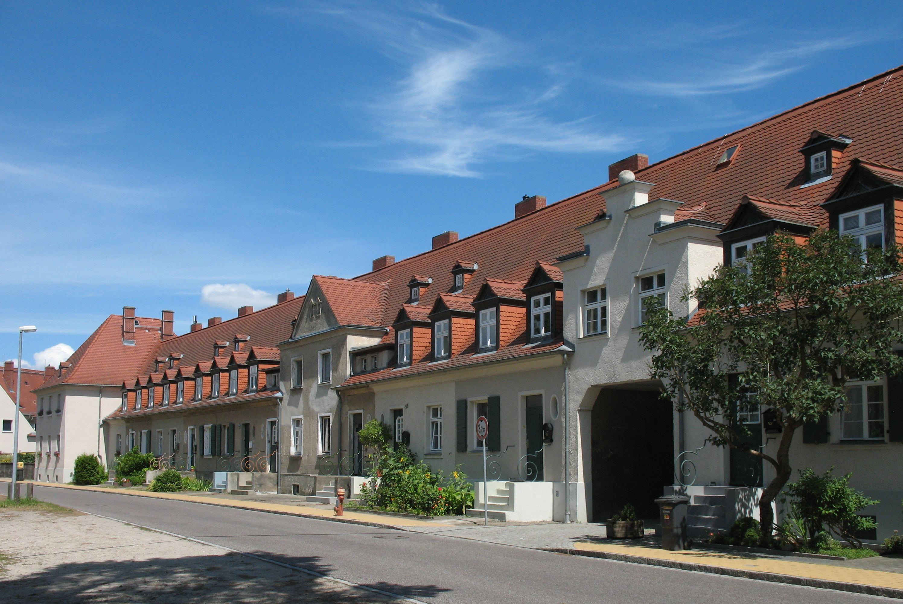 Listed building in Brandenburg-Kirchmöser in Brandenburg, Germany